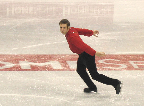 Geoffrey Varner at Skate Canada 2006.